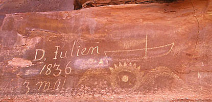 Denis Julien Inscription, Hellmouth Canyon on the Green River, Canyonlands National Park.